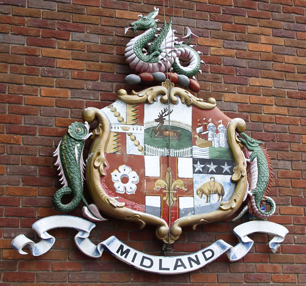 Midland Railway coat of arms at Derby stationThe six quarters represent (top row, left to right): Birmingham, Derby, Bristol, (bottom row, left to right): Leicester, Lincoln and Leeds. The crest is a wyvern, said to be derived from the Leicester and Swannington Railway and also thought to be a symbol of the Kingdom of Mercia.